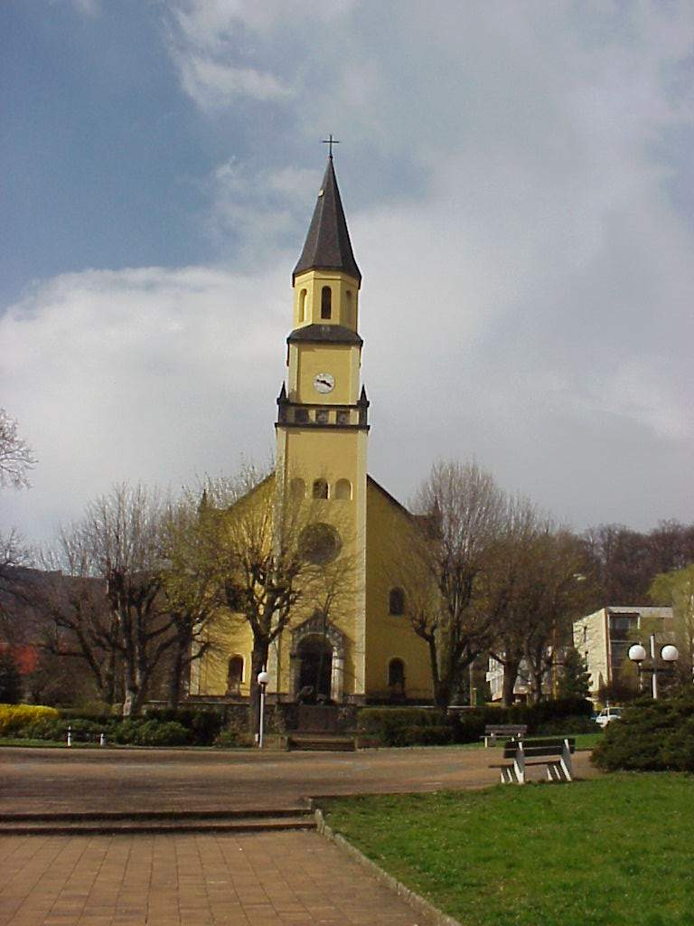 Kostel sv. Havla z 19. století v Chlumci, okres Ústí nad Labem